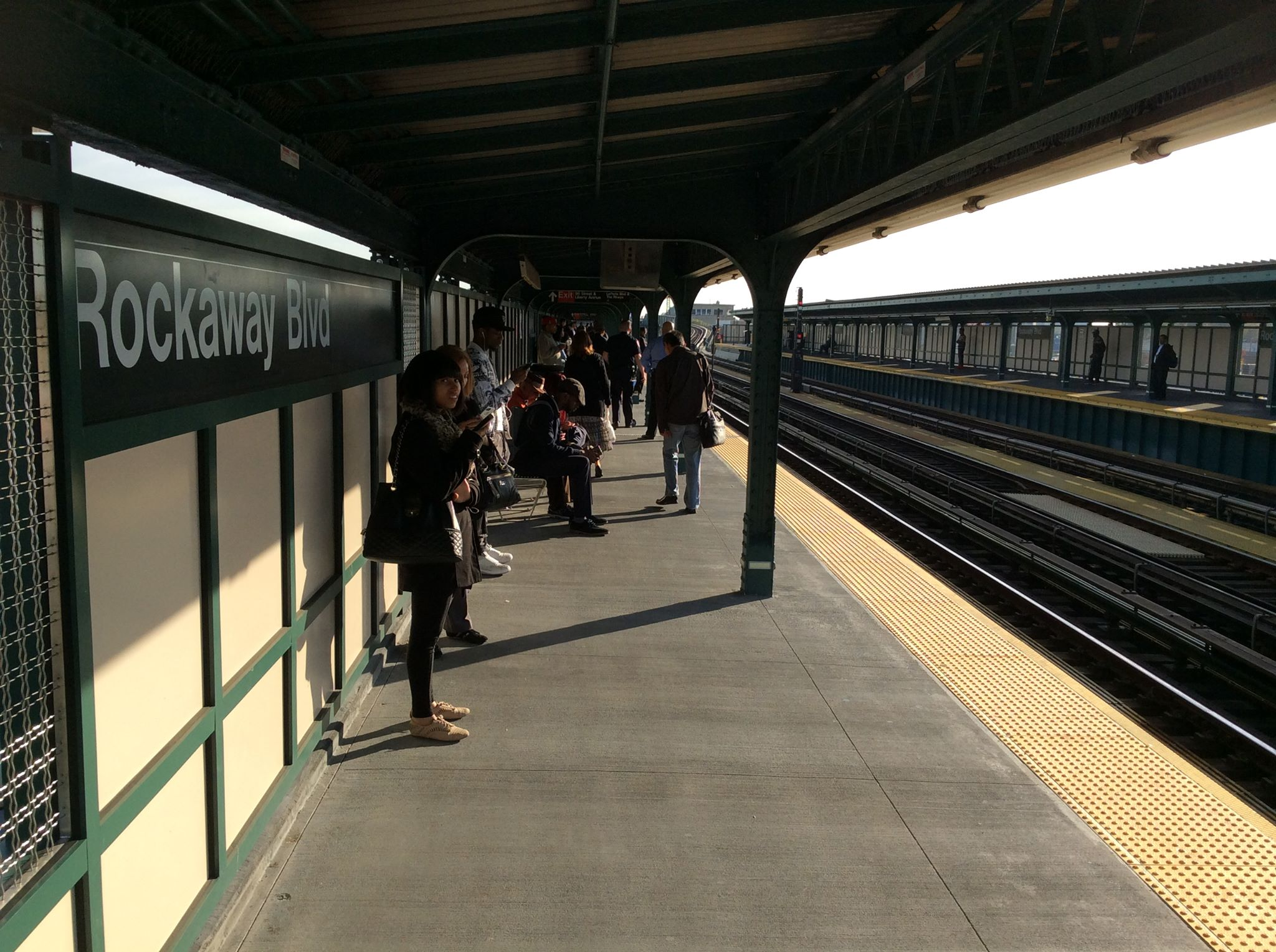 Brooklyn bound platform at Rockaway Blvd